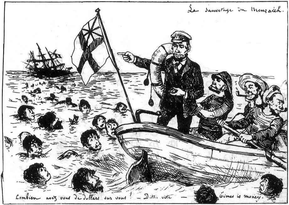 Georges Ferdinand Bigot, a French artist who dedicated much of his career to Japan, was an early adopter of the idea that the Unequal Treaties levied on Japan should be revised. In this particular work, Bigot satirizes the sinking of a French mail ship that was lost off the coast of Shanghai in 1887 by comparing it with the conduct of the British crew of the Normanton.[1] In the picture, we see Captain Drake astride the lifeboat asking the people drowning in the waves, "How much money do you have on you? Quick! Time is Money!"